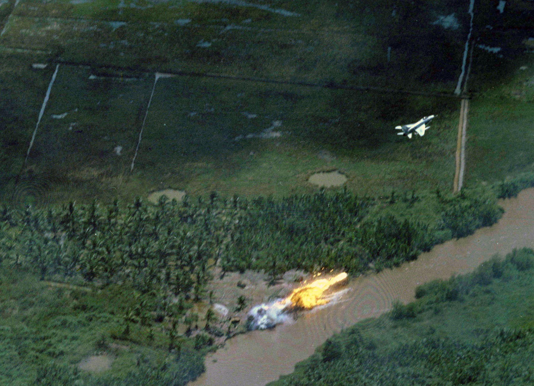 A U.S. Air Force North American F-100D Super Sabre of the 90th Tactical Fighter Squadron leaves the target area after dropping napalm on a suspected Viet Cong target, March 1966. The 90th TFS was assigned to the 3rd Tactical Fighter Wing at Bien Hoa Air Base, Vietnam, from 8 February 1966 to 31 October 1970.